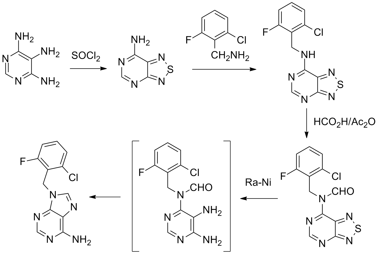 R. J. Tull, G. D. Hartman, and L. M. Weinstock, U. S. Patent, 4,098,787